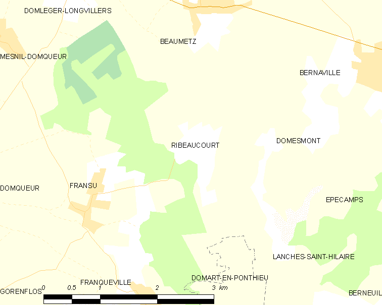 Map of French municipality Ribeaucourt